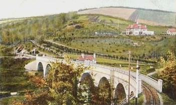 Chelfham Viaduct, circa 1904 (from a contemporary postcard). This image is a scan from a contemporary, hand-coloured photographic postcard, one of a series published by The Pictorial Stationary Company, London, as part of their "Peacock" series, in 1904/5. It shows the railway as it was when built, a scene that is still very recognisable, although somewhat different, today.